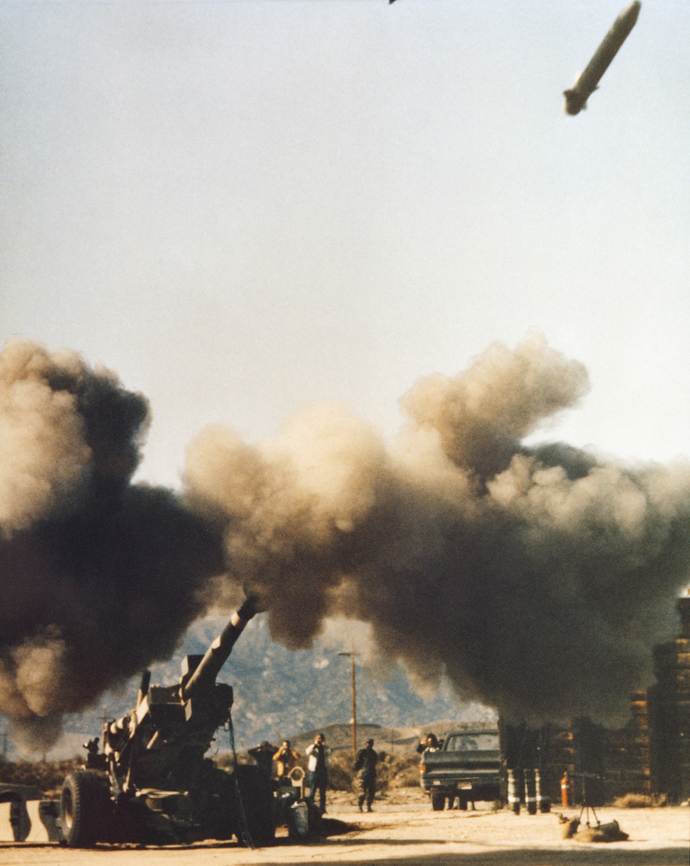 An M712 Copperhead cannon-launched laser-guided projectile is fired from a modified 155 mm M198 howitzer.